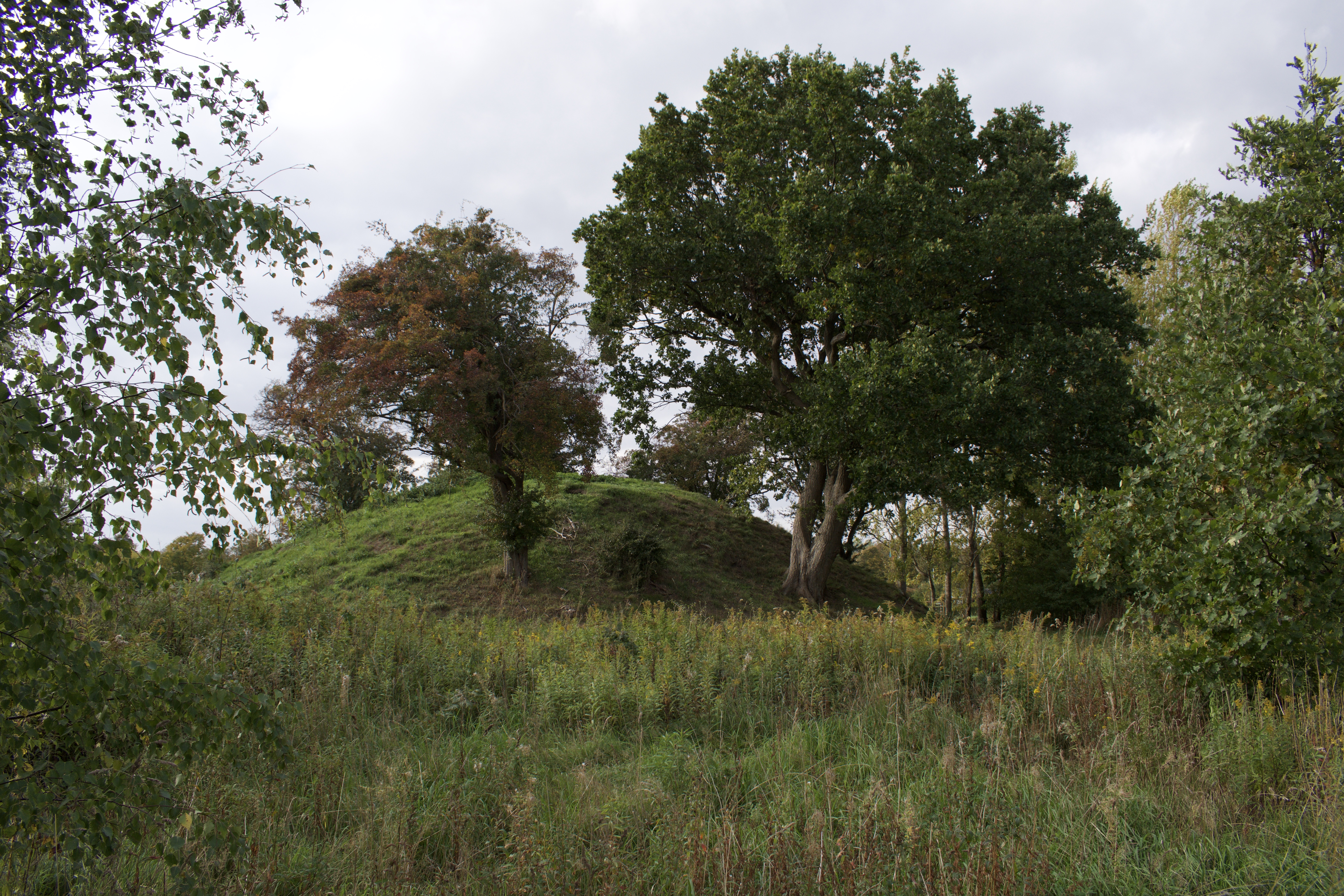 Studerhøj, a protected Tumulus in Ballerup Municipality, Denmark